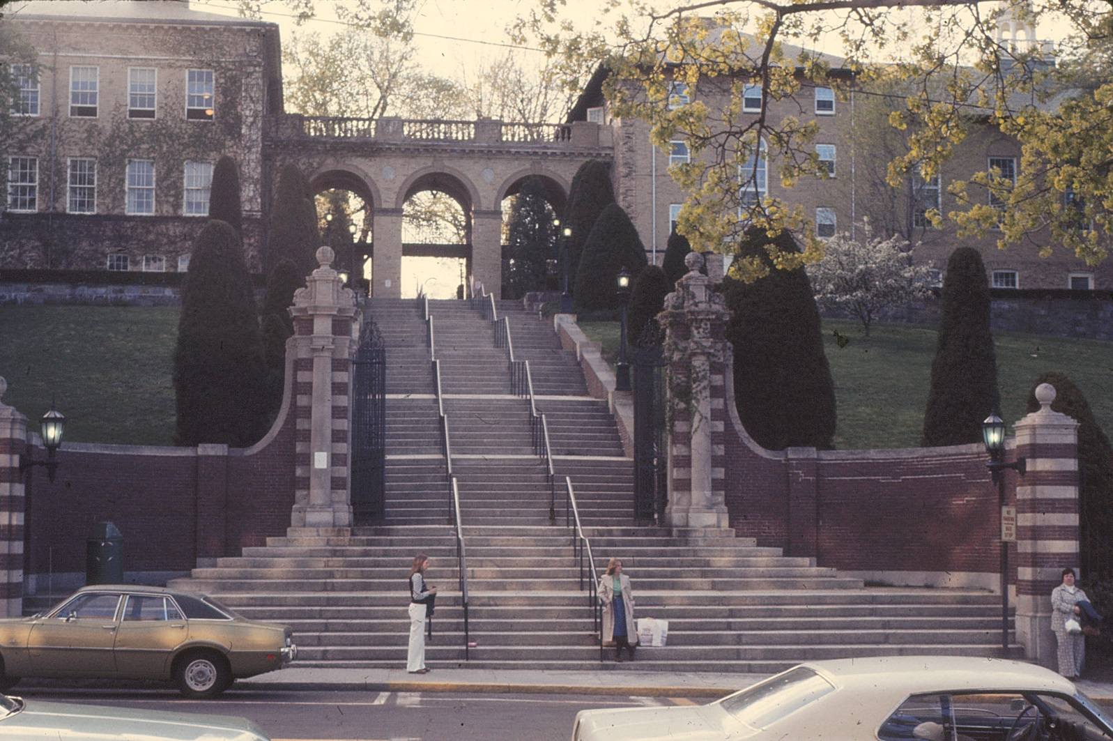 Tufts Memorial Steps, as seen on a Saturday afternoon in April 1976. Scan of an Ektachrome slide.